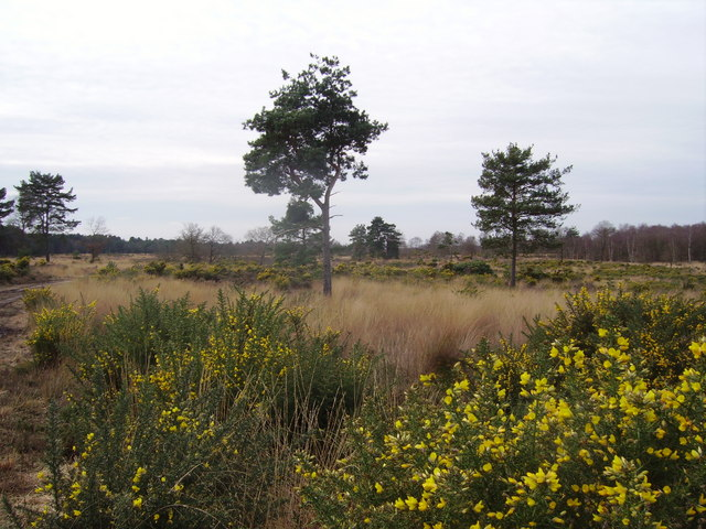 Yateley Common This part of Yateley Common, to the south of the A30 is owned by the Ministry of Defence. Soldiers from the nearby Gibraltar Barrack often use this area for practicing manoeuvres.